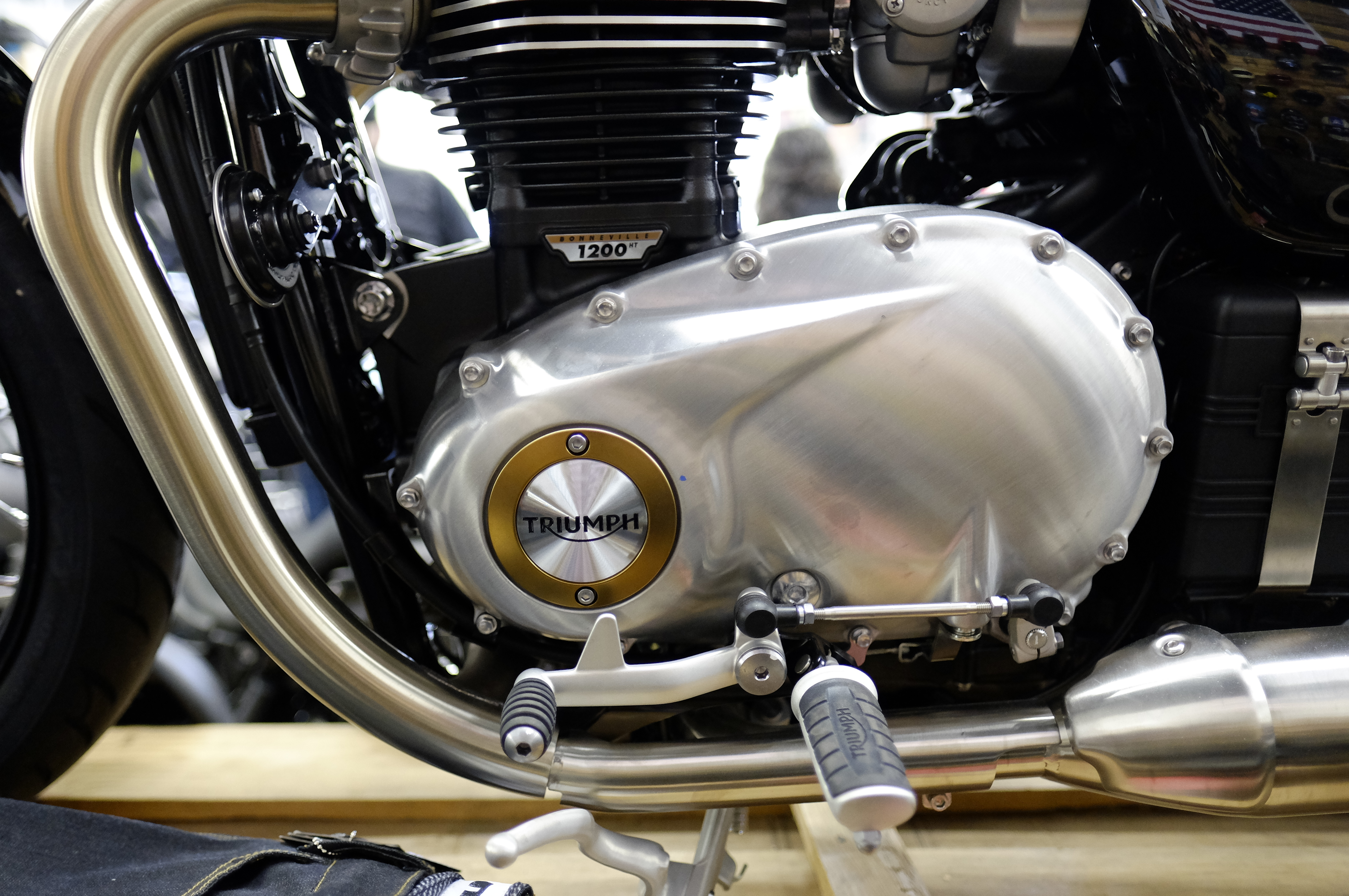 2017 Triumph Bonneville Bobber at Triumph of Seattle.